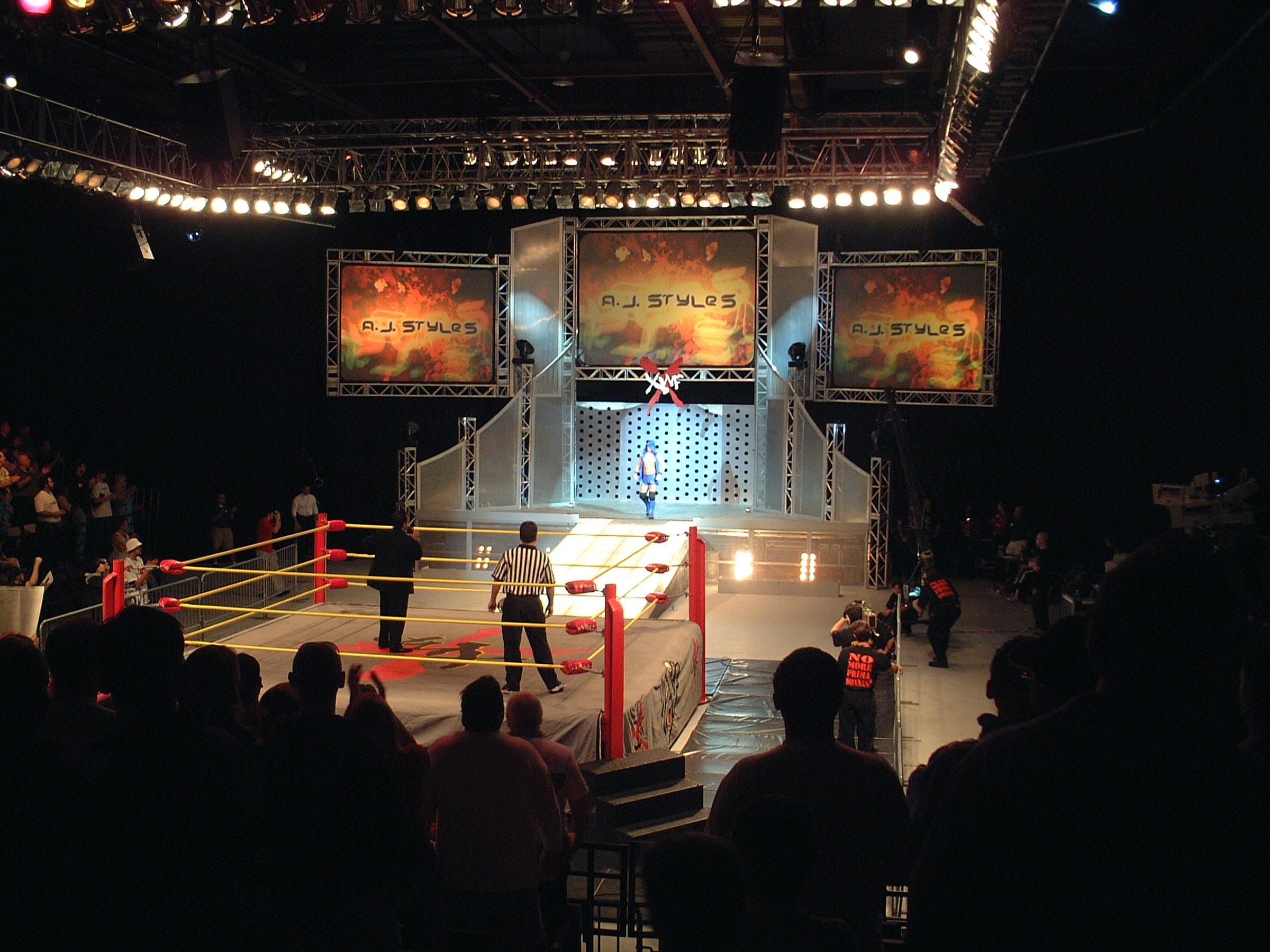 Picture of XWF Wrestling Event in Orlando FL, Picture taken at Universal Studios in Orlando, FL